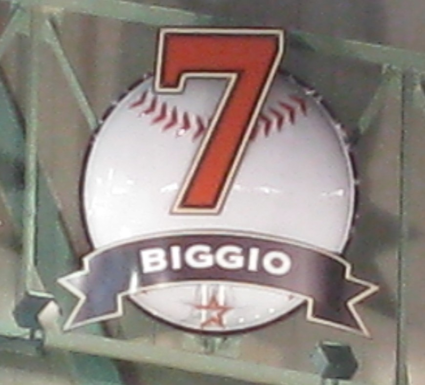 Picture of Craig Biggio's retired number 7 as commemorated at Minute Maid Park. Taken during the number retirement ceremony on August 17, 2008.